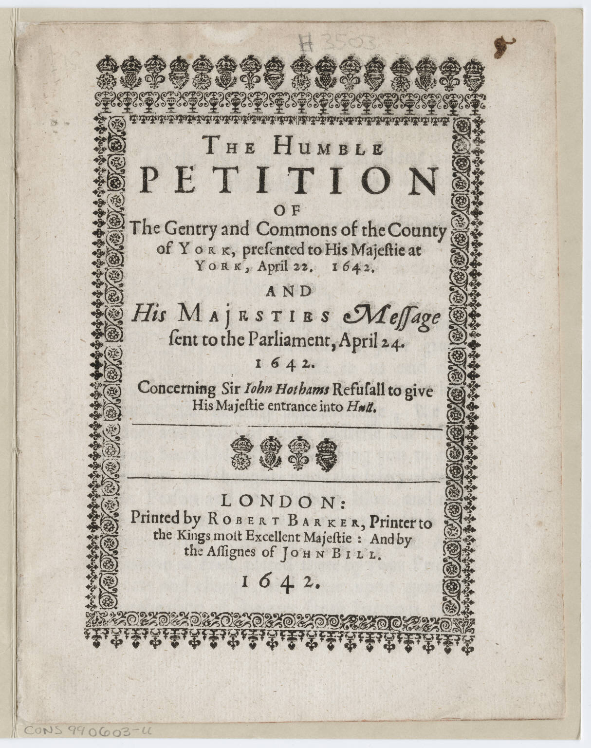 "The Humble Petition of The Gentry and Commons of the County of York, presented to His Majestie at York, April 22, 1642 : and His Majesties message sent to the Parliament, April 24, 1642 : concerning Sir John Hothams Refusall to give His Majestie entrance into Hull." Printed at London by Robert Barker. Image courtesy of the Beinecke Rare Book & Manuscript Library, Yale University.[1]